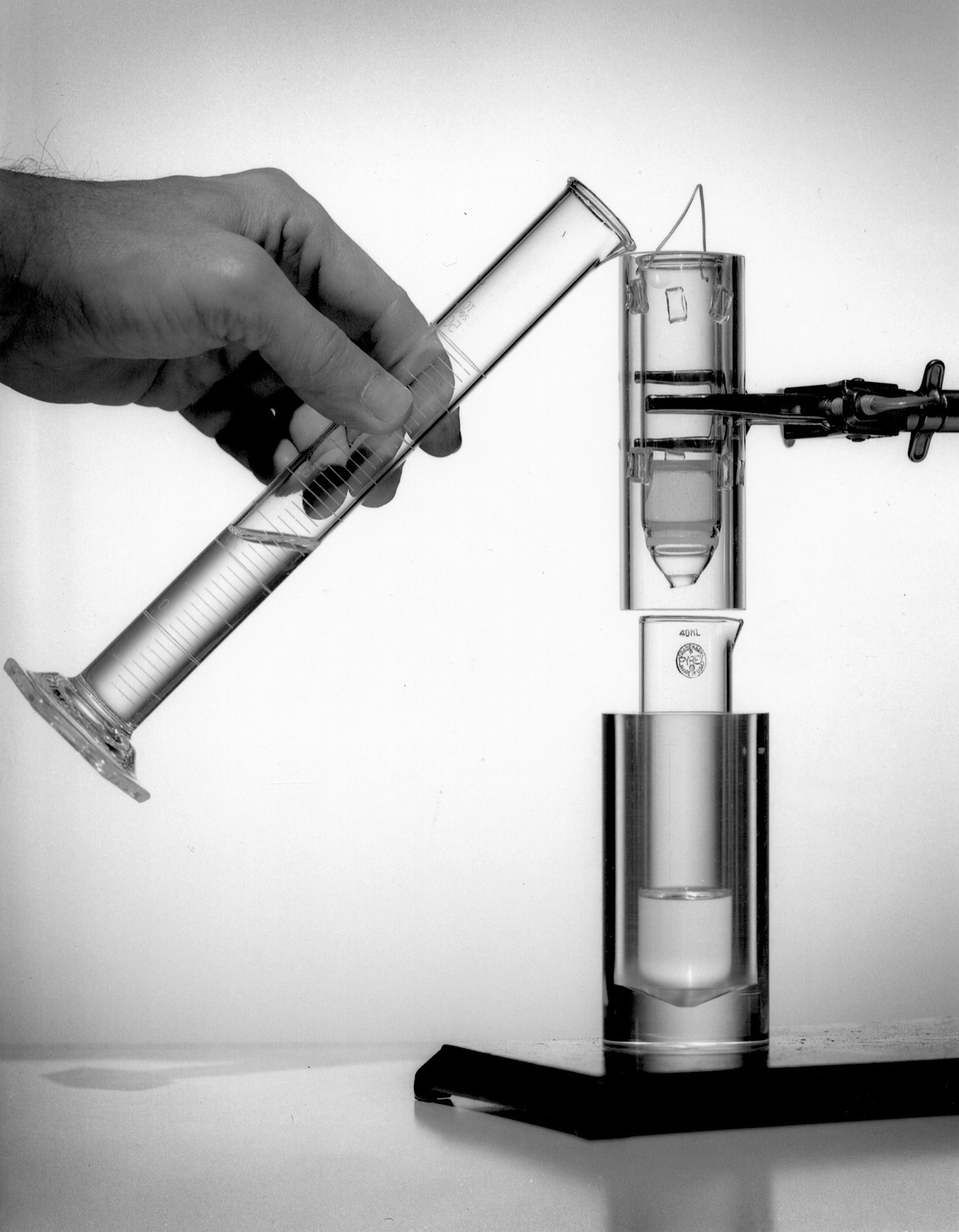 The first technetium-99m generator developed at Brookhaven National Laboratory, circa 1958, shown without shielding. Technetium-99m is the most commonly used medical radioisotope.